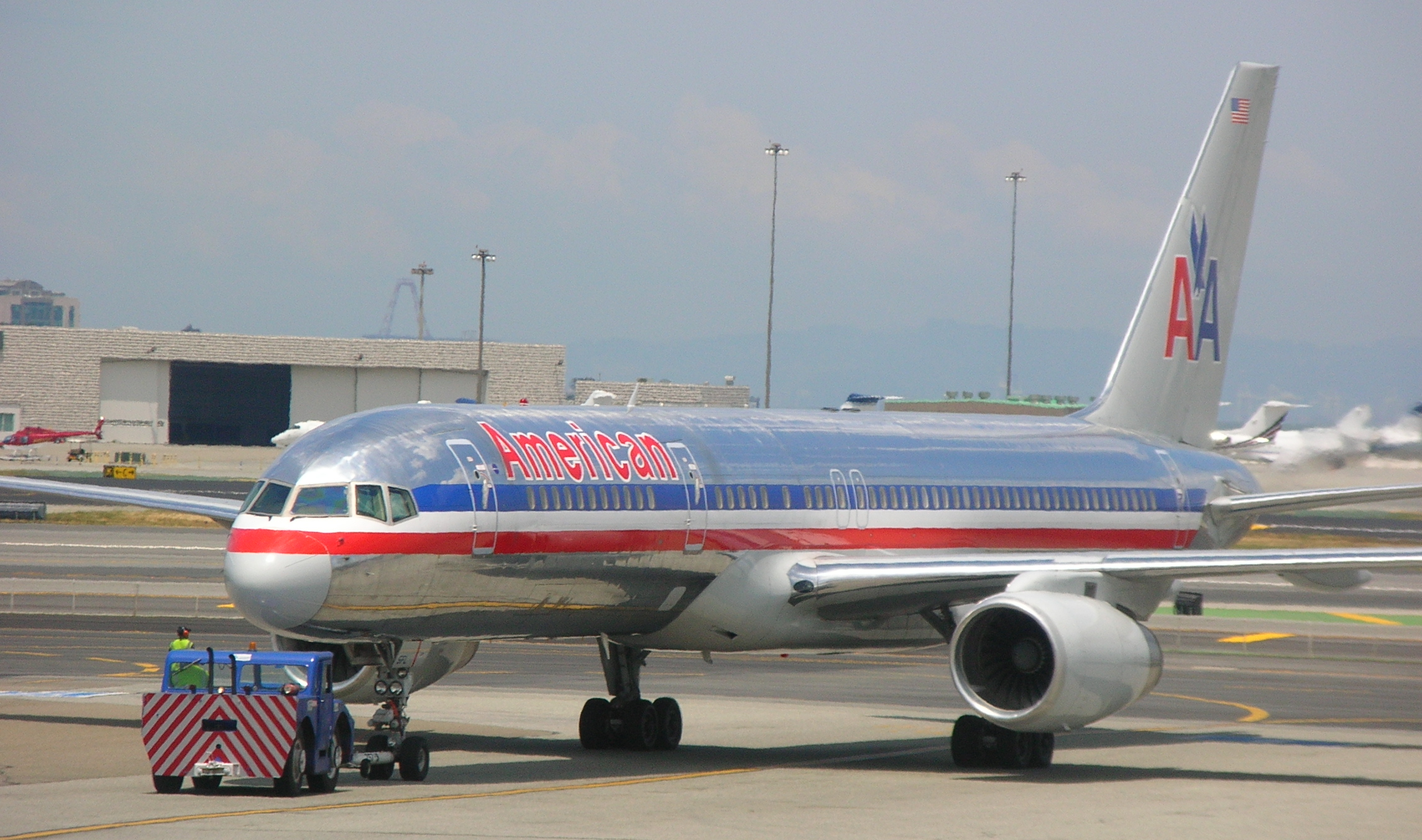 An American Airlines Boeing 757-223, tail number N176AA, at San Francisco International Airport (SFO).